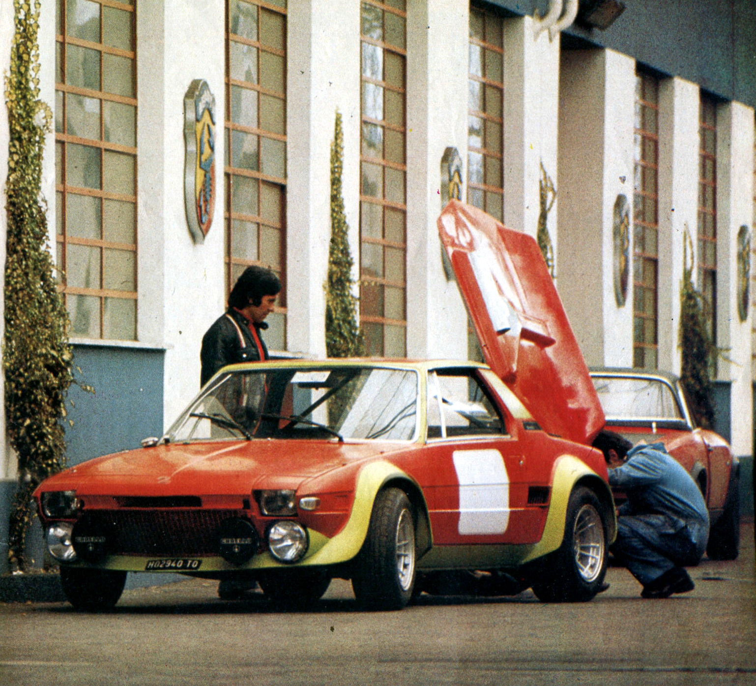 A Fiat Abarth X1/9 Prototipo, Fiat X1/9's racing prototype, in setup on the Fiat's Abarth Competitions Centre in Corso Marche, Turin (Italy), 1974.